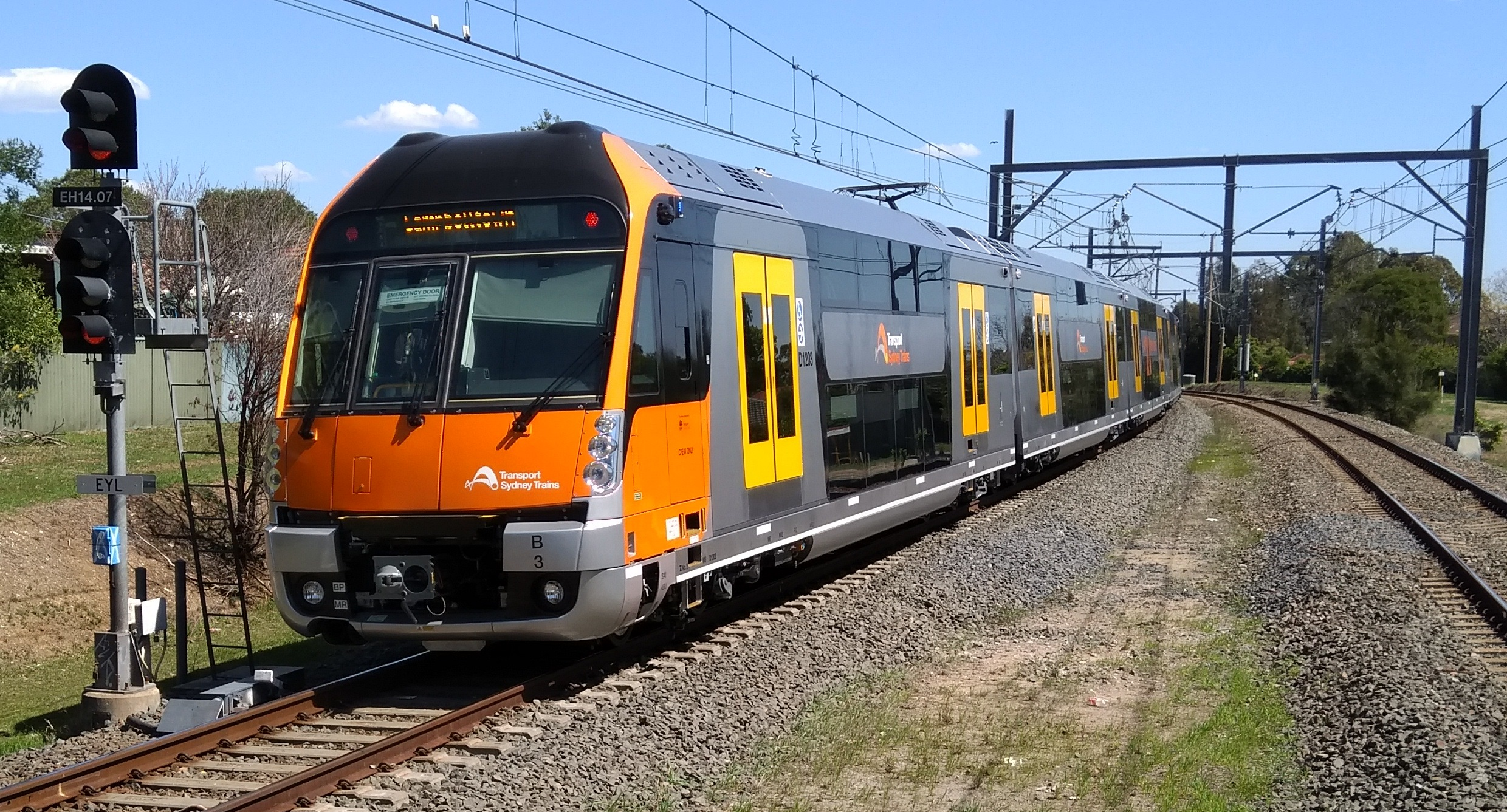 B3 departing Panania.